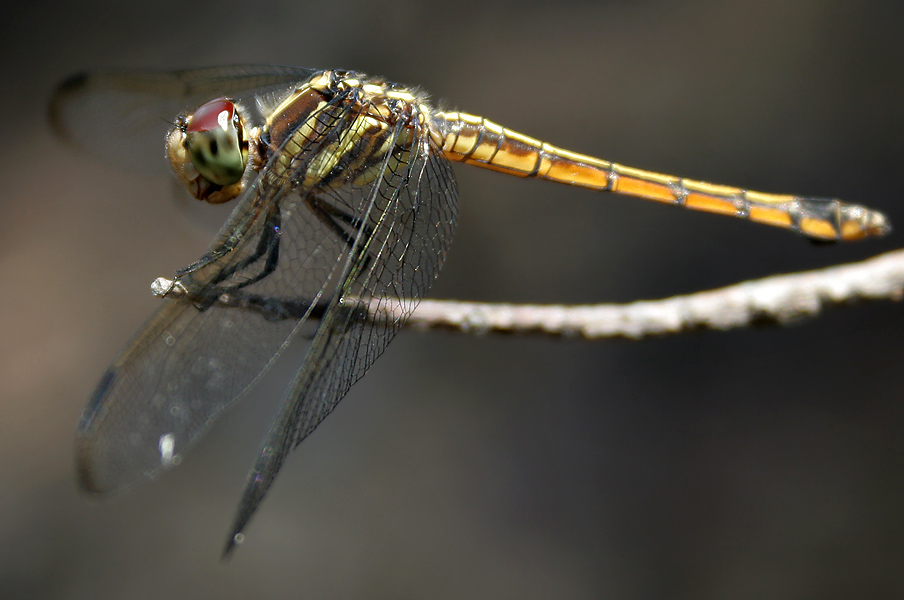 Potamarcha congener - Yellow-tailed Ashy Skimmer - at Deer Park in Shamirpet, Rangareddy district, Andhra Pradesh, India.